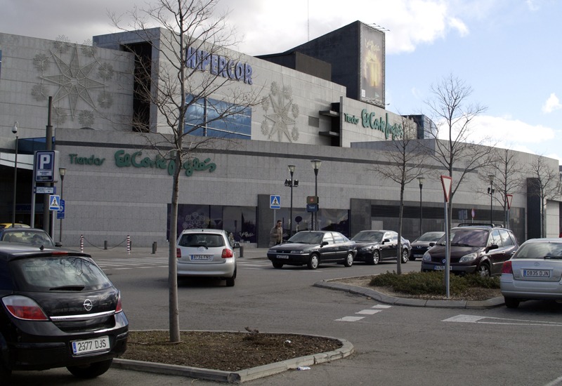 Hipercor in Xanadu Shopping Mall, Madrid (Spain)